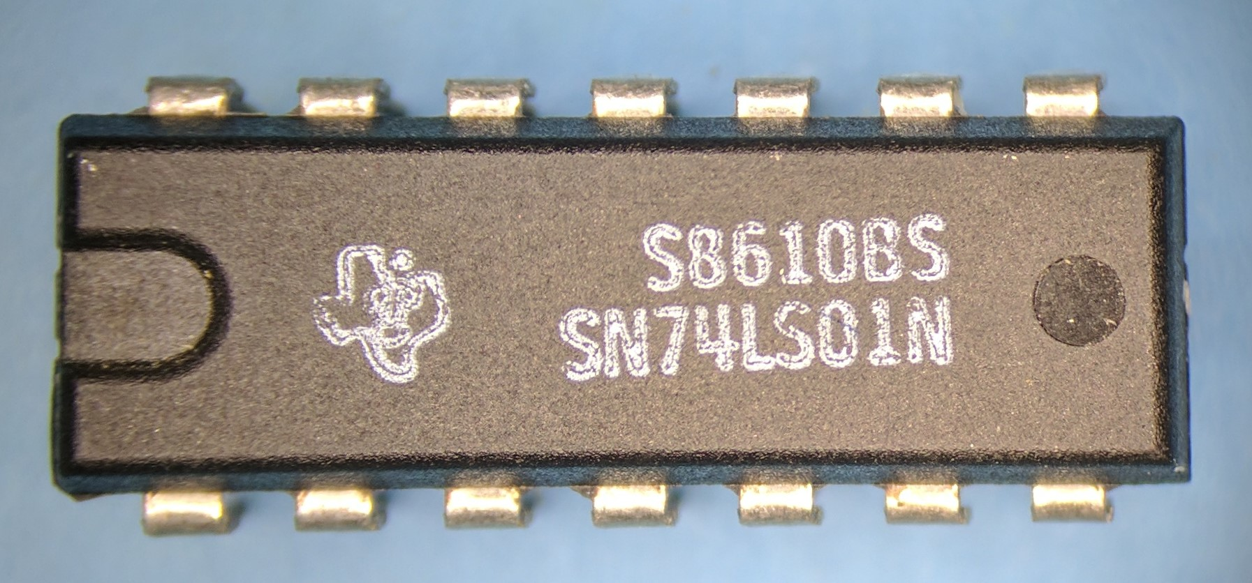 Top of package of a Texas Instruments 74LS01 chip, datecode 8610